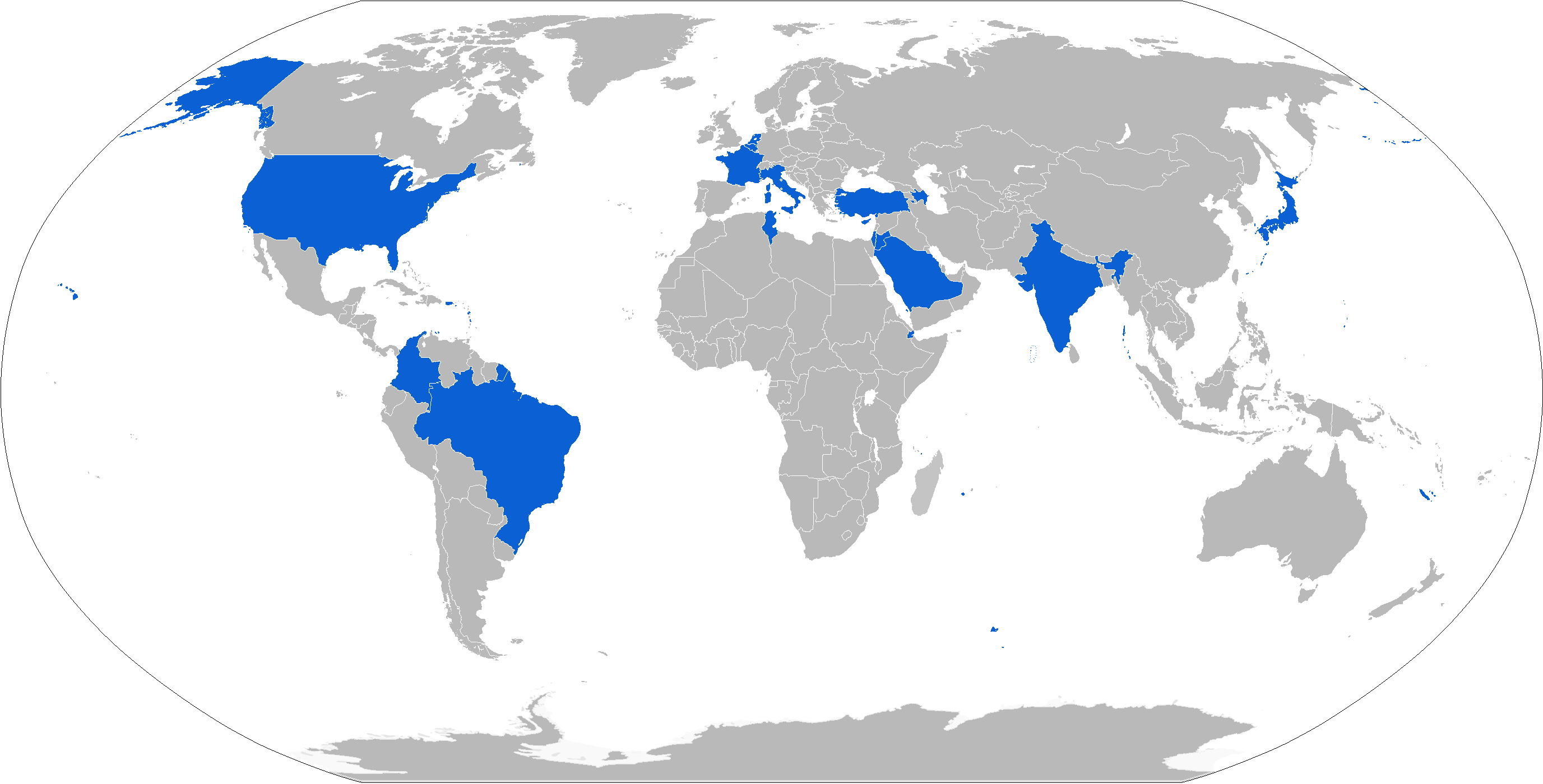 Map with MO-120 RT-61 operators in blue